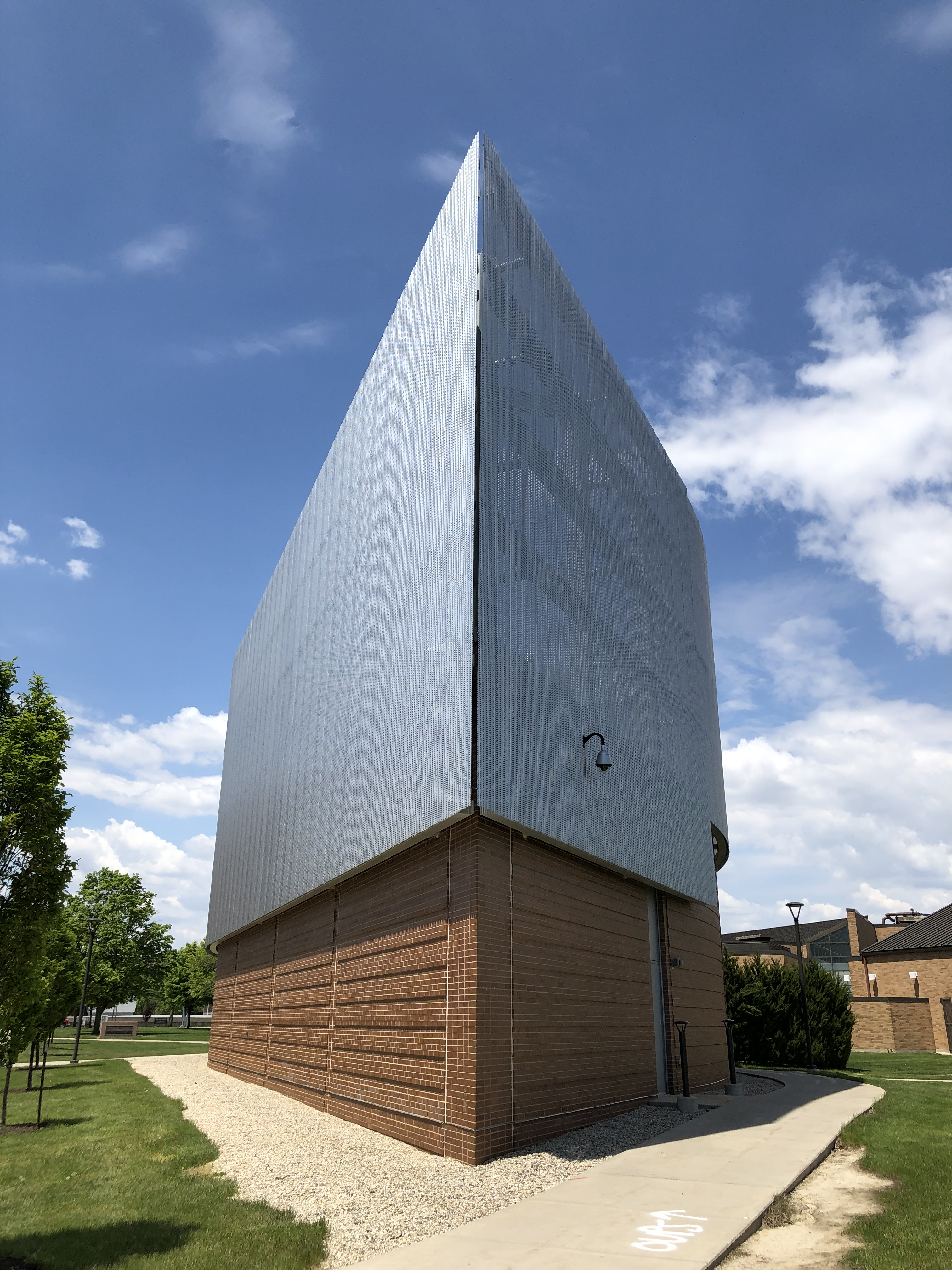 The exterior of the Chiller Plant at BGSU. The metal shroud hides machinery on the top of the building.